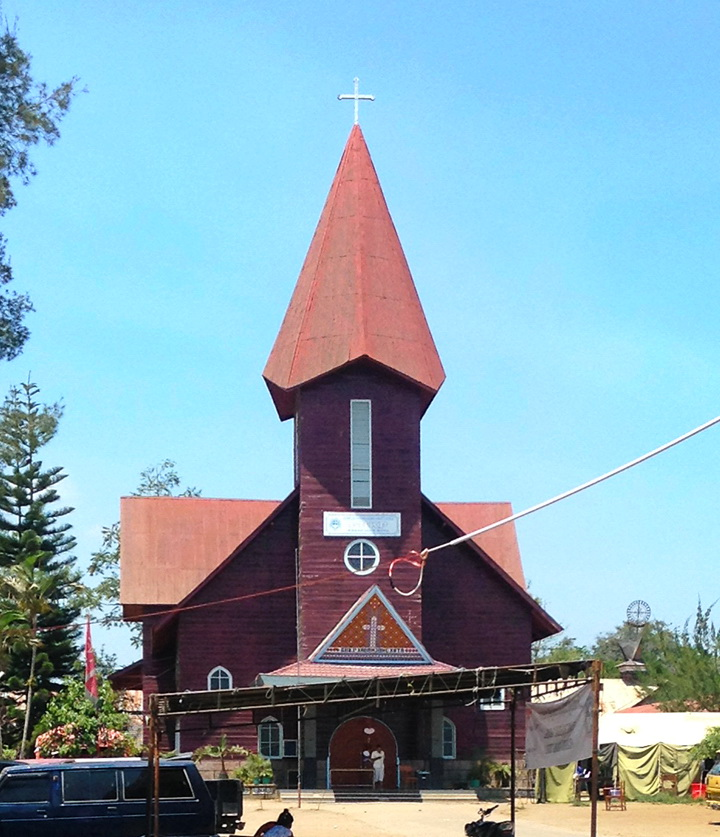 GBKP Rg. Kabanjahe Kota, Klasis Kabanjahe, Church in Kabanjahe, Karo